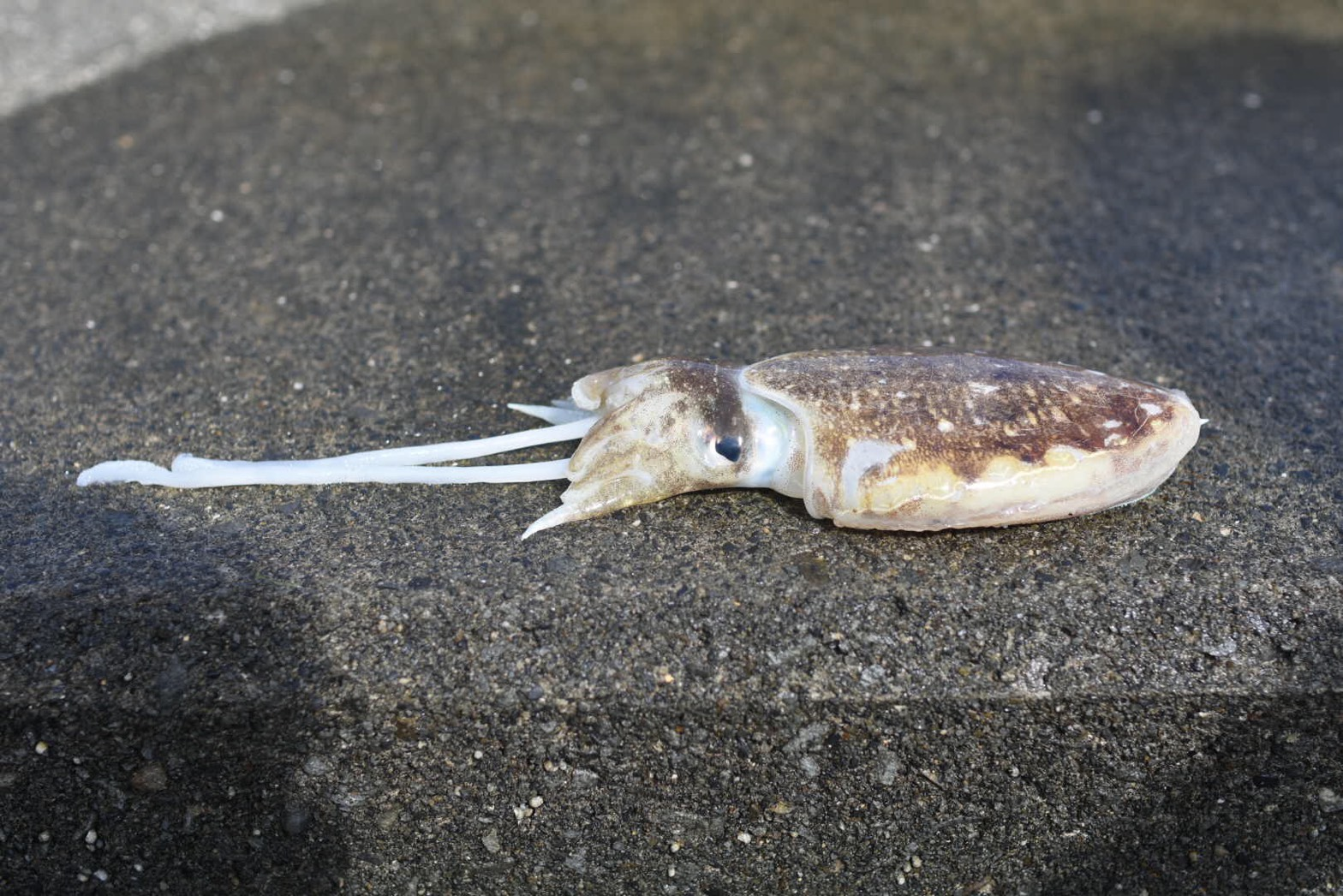 Lateral view of golden cuttlefish (Sepia esculenta) landed at Tosa-saga.